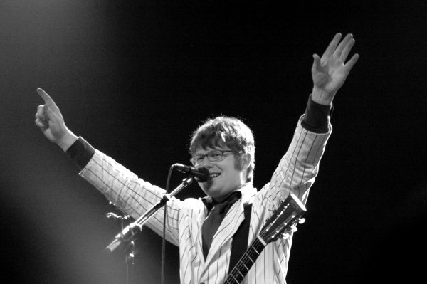 Colin Meloy, singer/gitarist of The Decemberists. Botanique, Brussels.